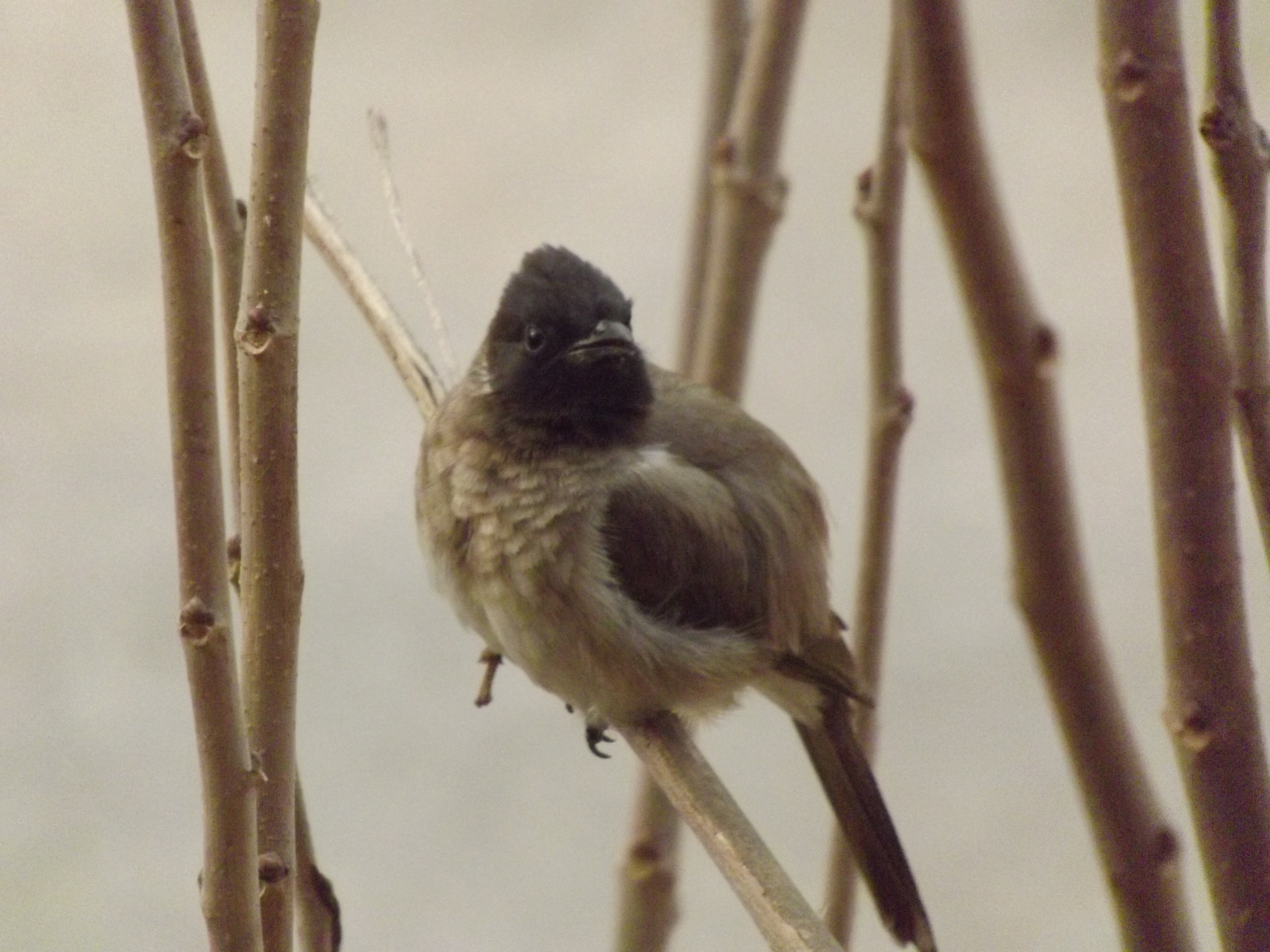 Common Bulbul (Egypt/El-Obour) 2013